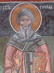 Gorazd, a saint from Moravia (today Slovakia)